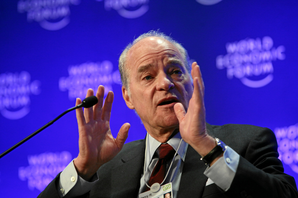 Henry R. Kravis, Founding Partner, Kohlberg Kravis Roberts and Co., USA; Chair of the Governors Meeting for Investors 2009, during the session 'Scenarios for the Future of the Global Financial System' at the Annual Meeting 2009 of the World Economic Forum in Davos, Switzerland, January 30, 2009. Pioneer in private equity and leveraged buyouts